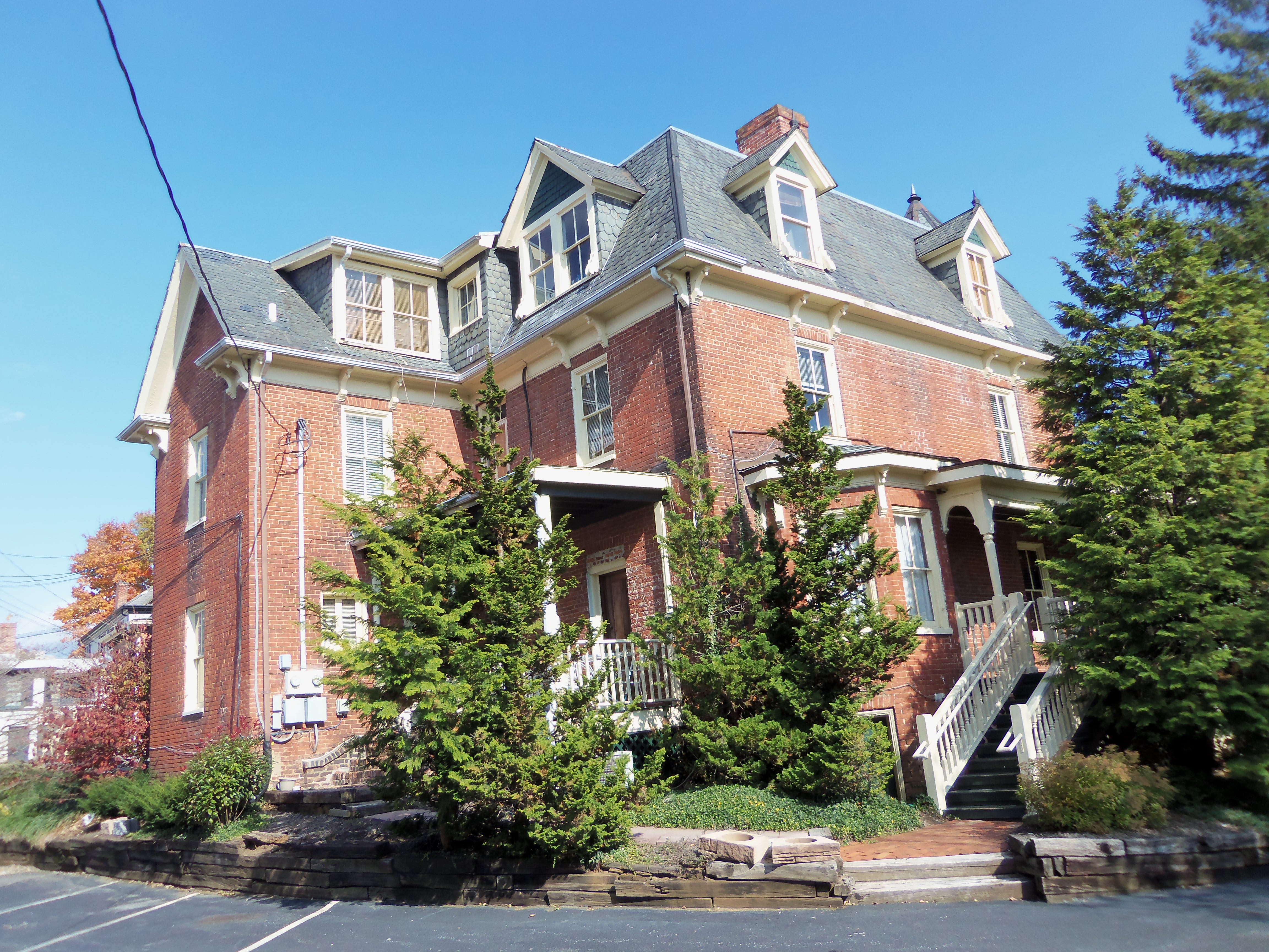 Rear view of the George A. Mears House in Asheville, North Carolina is listed on the National Register of Historic Places.